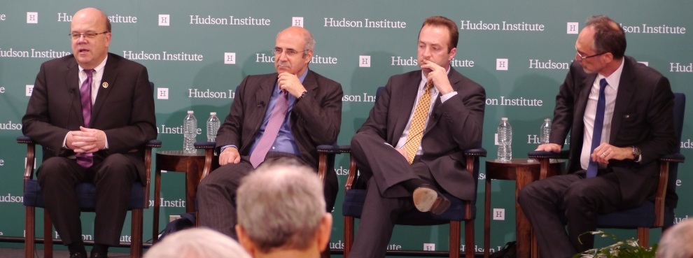 To address the current impetus for expanding the Magnitsky Act, Hudson Institute welcomed Bill Browder, author of Red Notice: A True Story of High Finance, Murder, and One Man’s Fight for Justice, Congressman James McGovern, original sponsor of the Sergei Magnitsky Rule of Law Accountability Act of 2012, Kyle Parker and Charles Davidson.